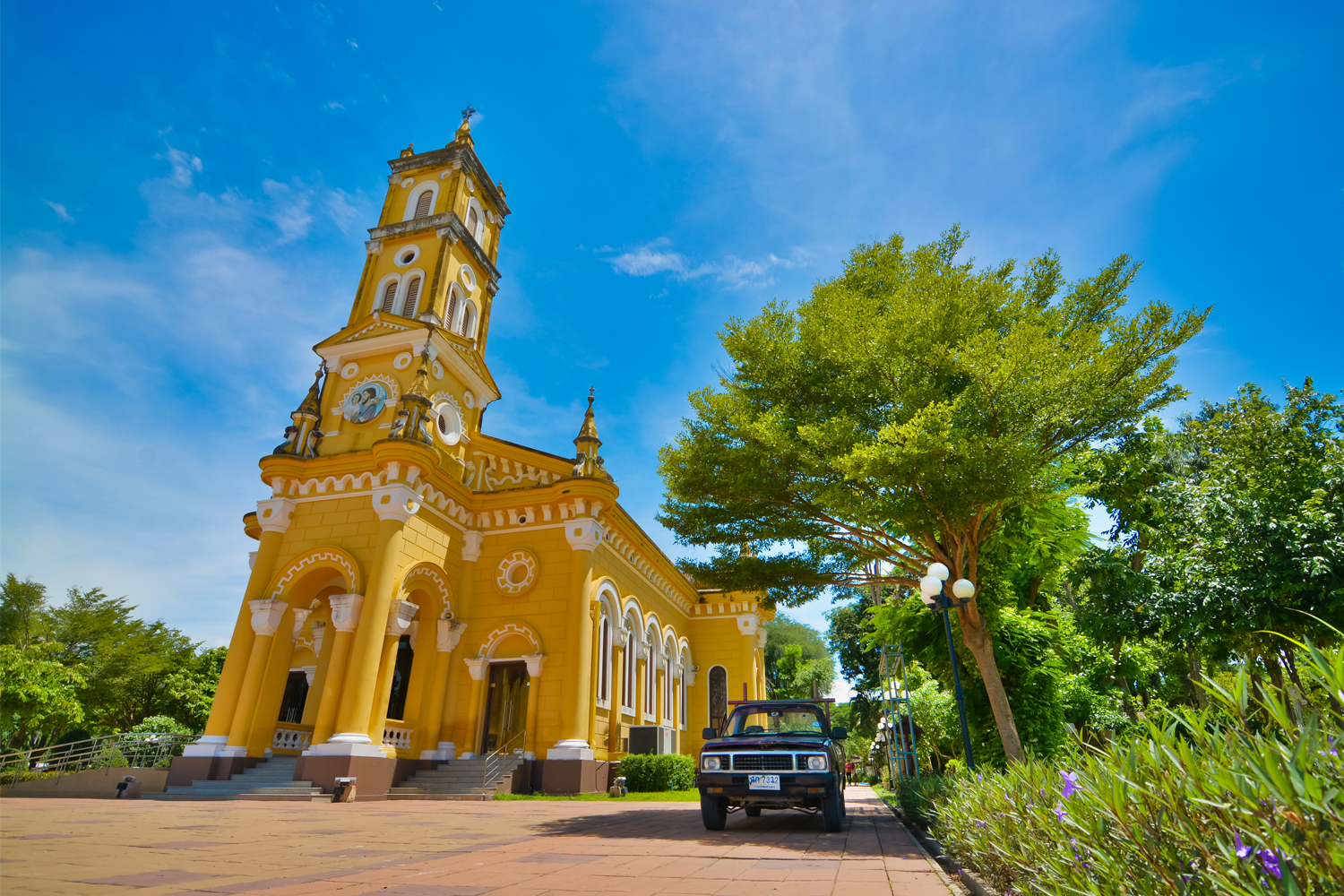 Saint Joseph Catholic Church, Ayutthaya, Samphao Lom Subdistrict, Phra Nakhon Si Ayutthaya District, Phra Nakhon Si Ayutthaya Province